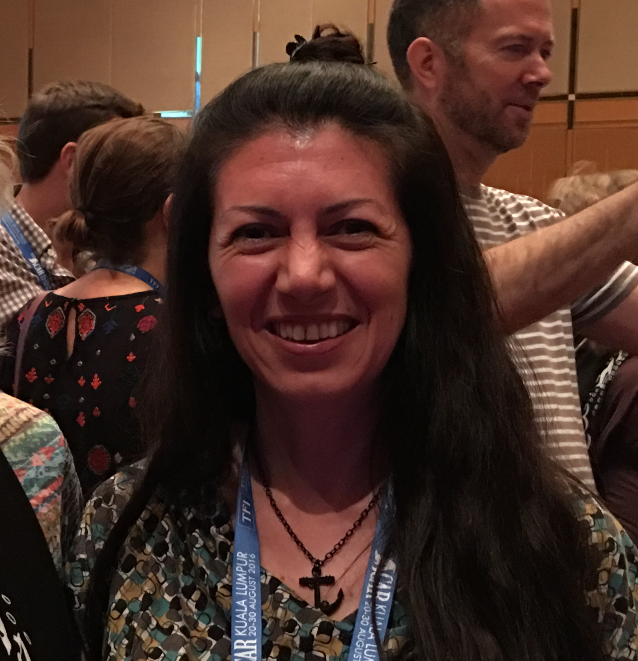 Prof. Terry Wilson (Ohio State University Byrd Polar and Climate Research Center) and Dr. Burcu Ozsoy (Istanbul Technical University Polar Research Center) in SCAR opening ceremony